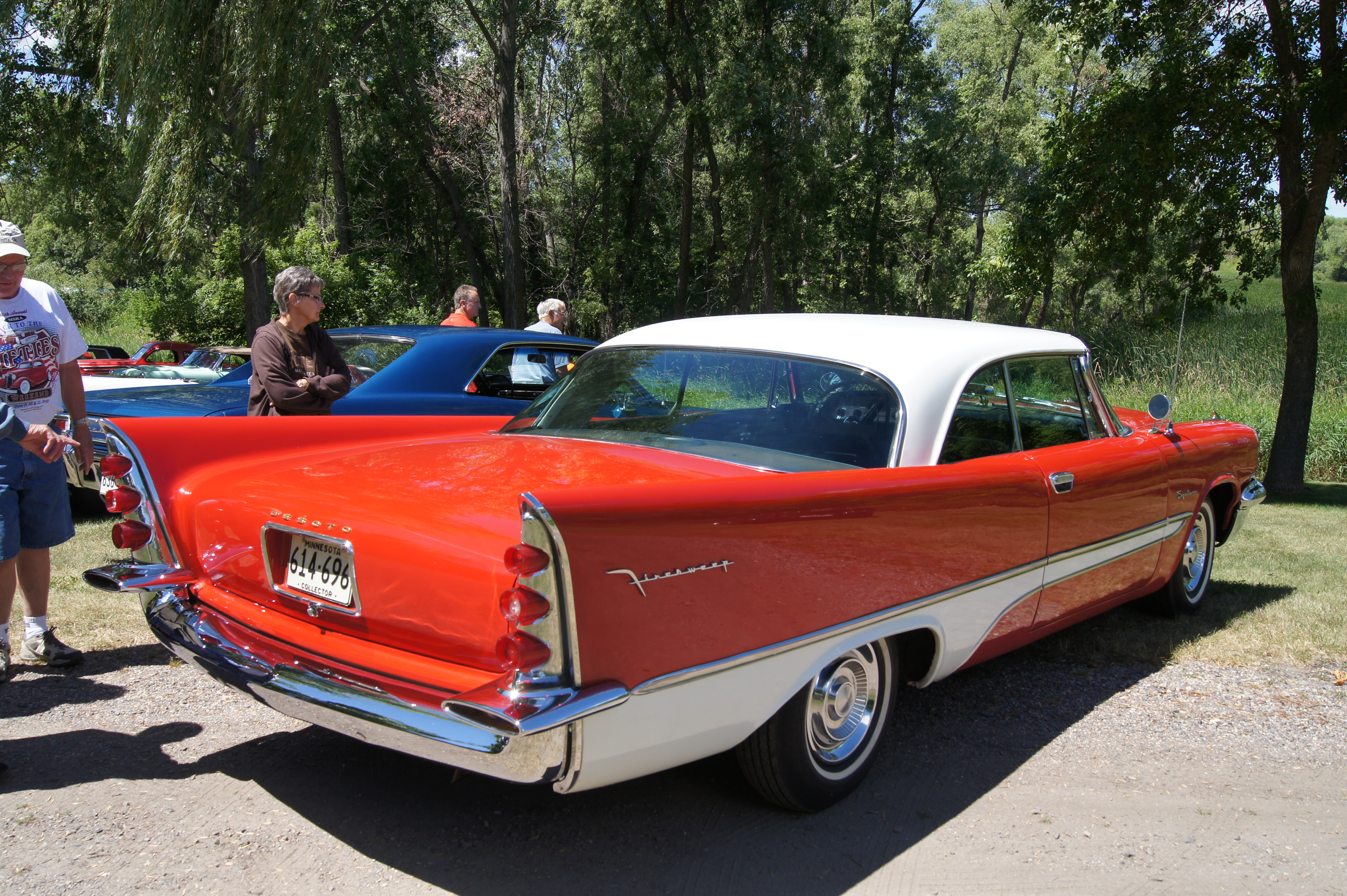 Paul and Carol hosted the 7th Annual "The Classic Cruise In" Another success: great food, fun and excellent weather